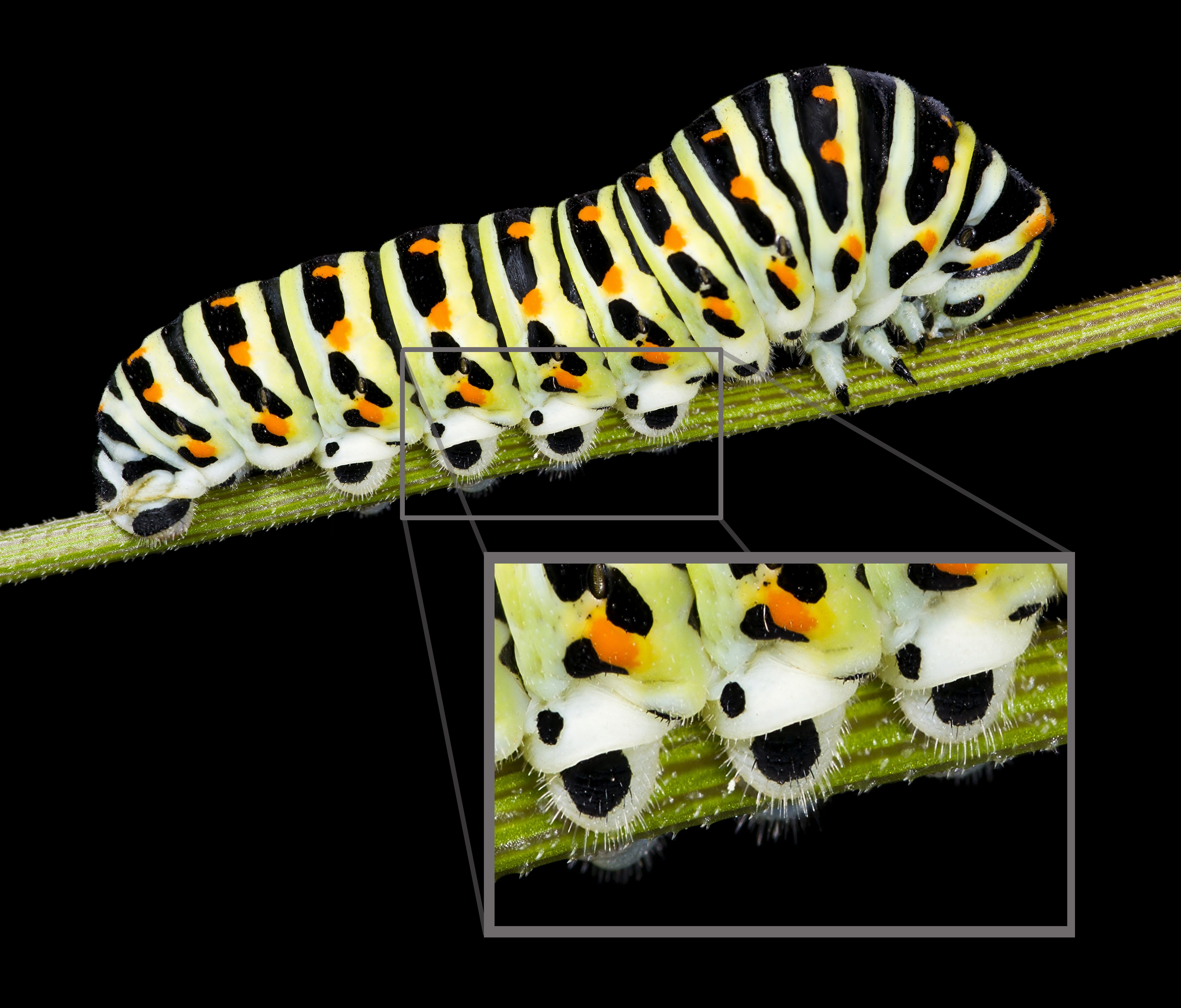 Caterpillar of the Old World Swallowtail - Size 42mm. Proleg.